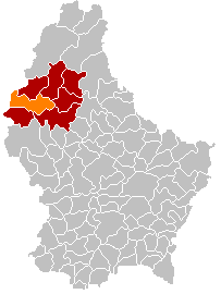 Own edit of Kanton WiltzLocatie.png